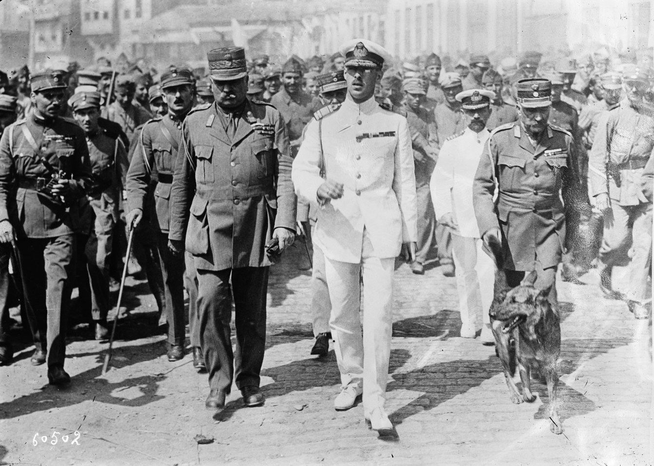 King Alexander of Greece and General Paraskevopoulos in Bandirma